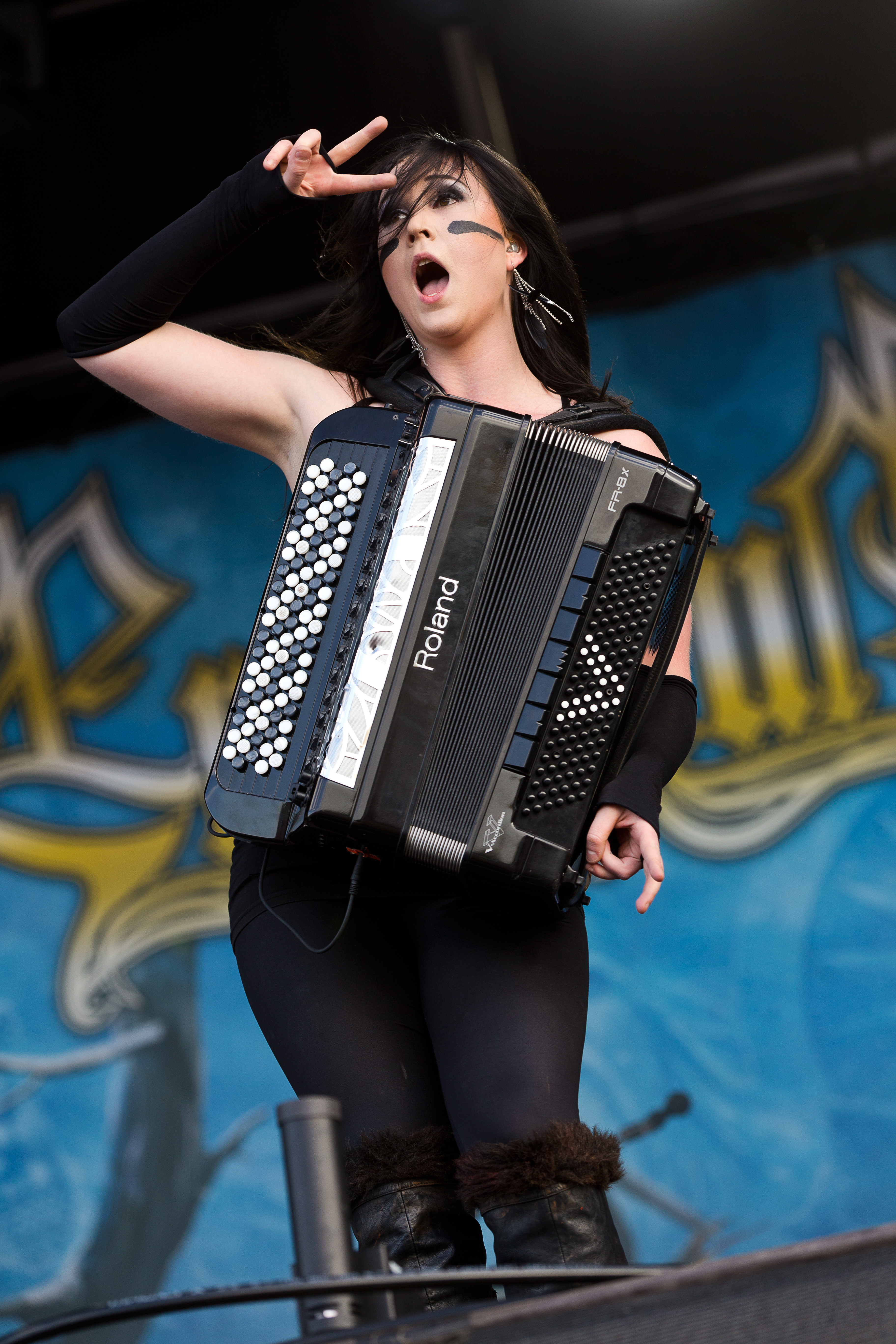 The Finnish folk metal band Ensiferum at the Rockharz Open Air 2016 in Ballenstedt/Germany.